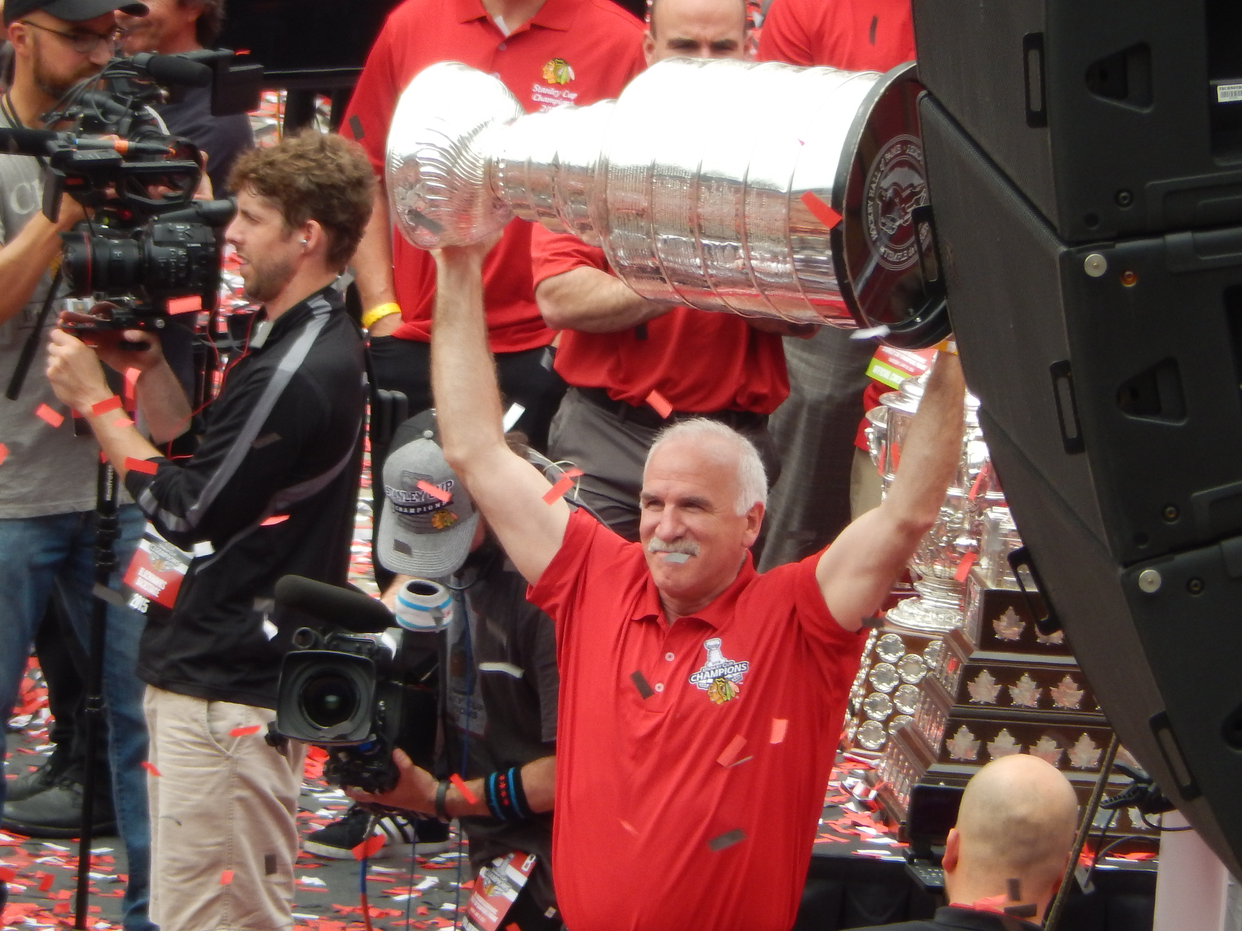 Chicago Blackhawks head coach Joel Quenneville hoists the Stanley Cup at the Blackhawks 2015 Championship Rally.